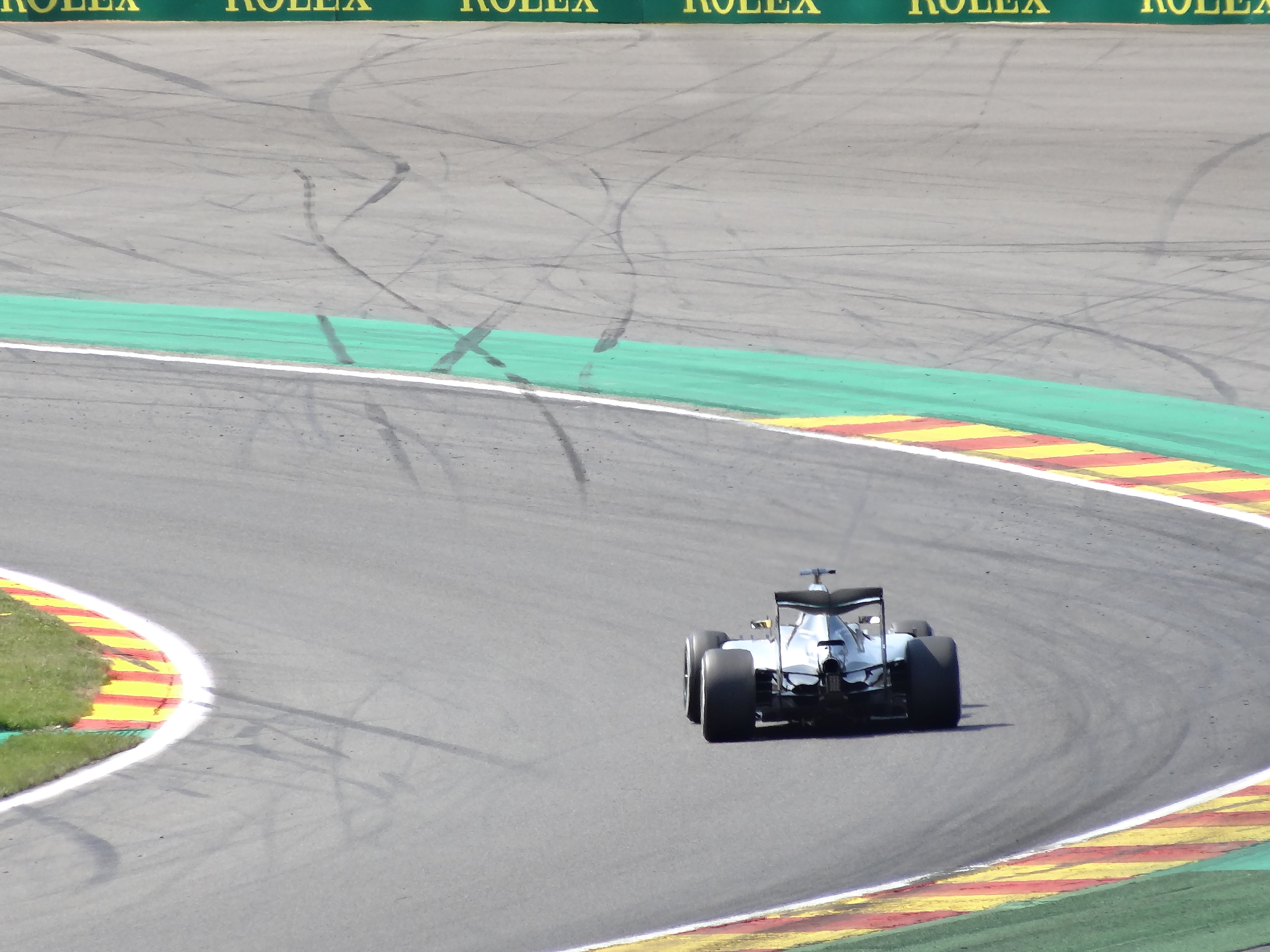 Mercedes in Spa 2015